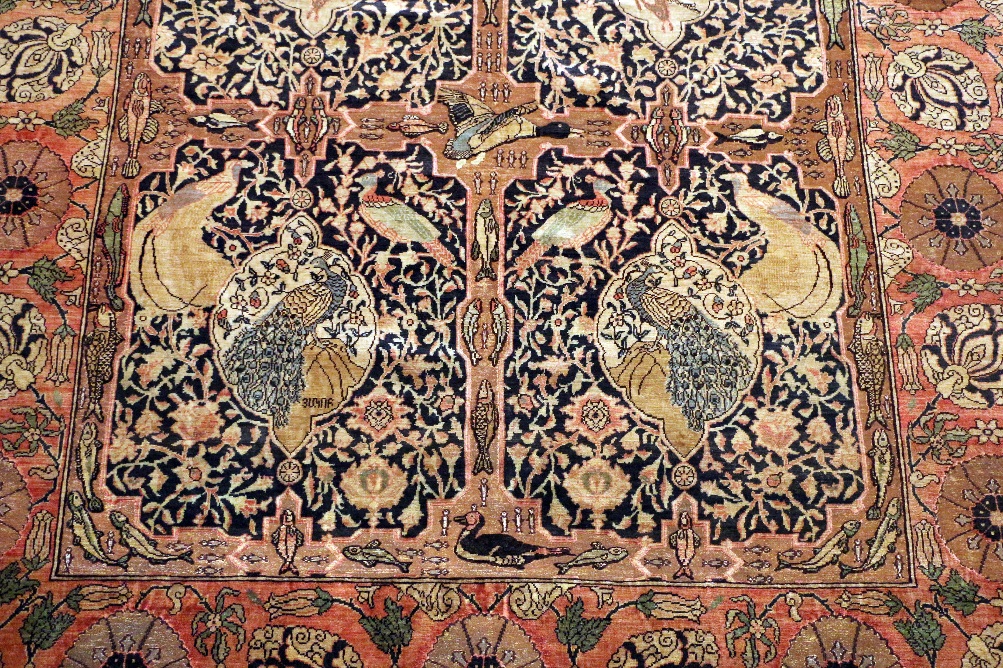 Rugs and carpets in the Calouste Gulbenkian Museum